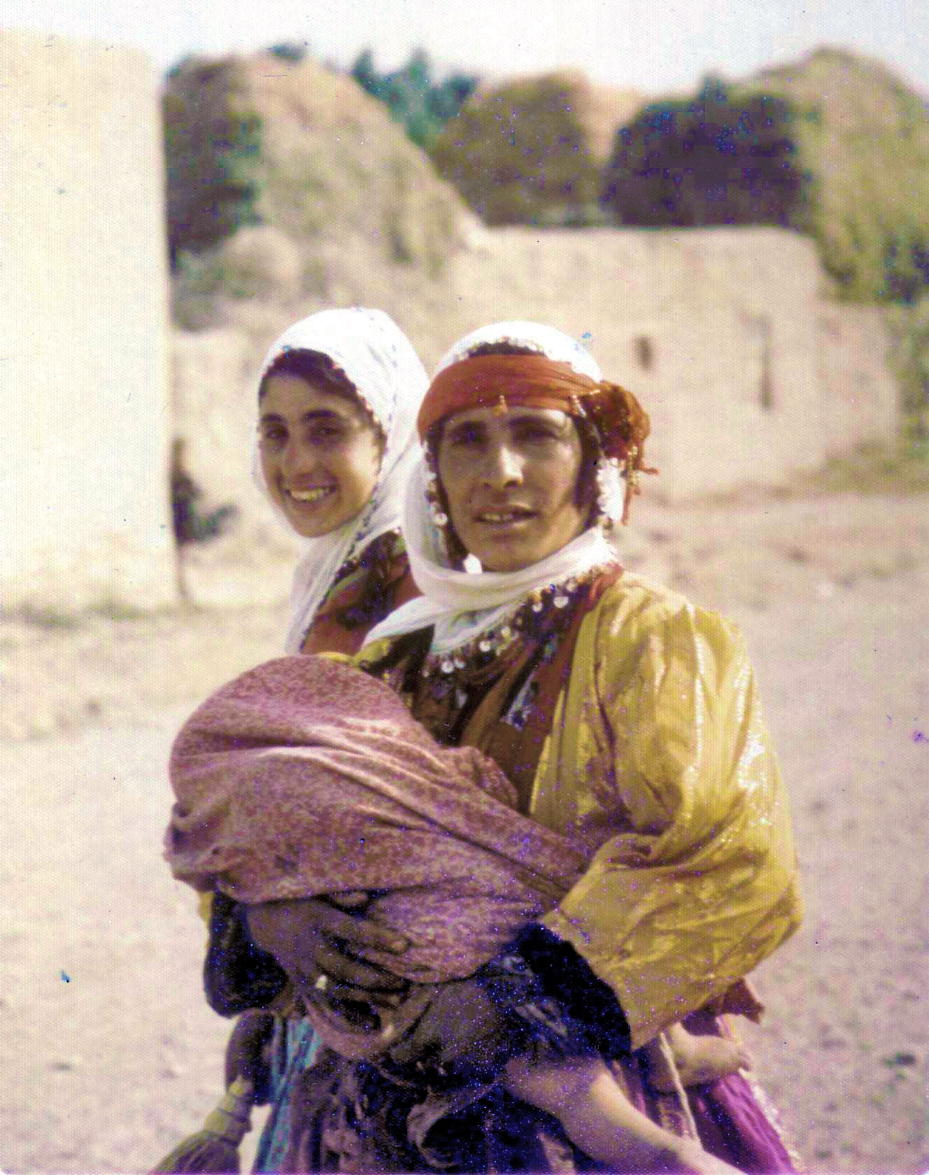 I took this photo myself in 1973. John Hill 03:18, 28 August 2007 (UTC)